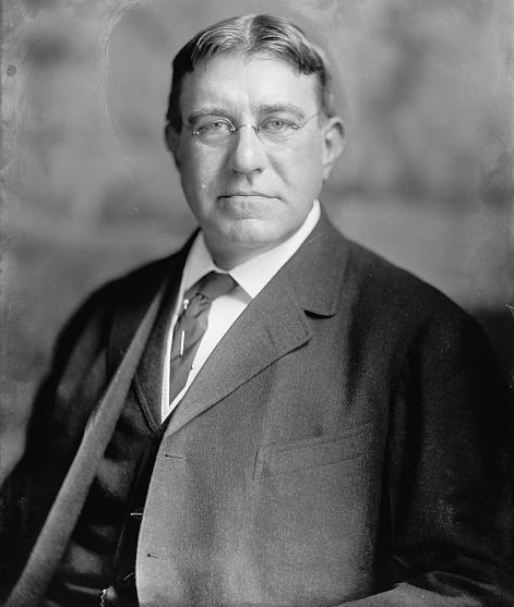 Henry G. Danforth, Congressman from New York